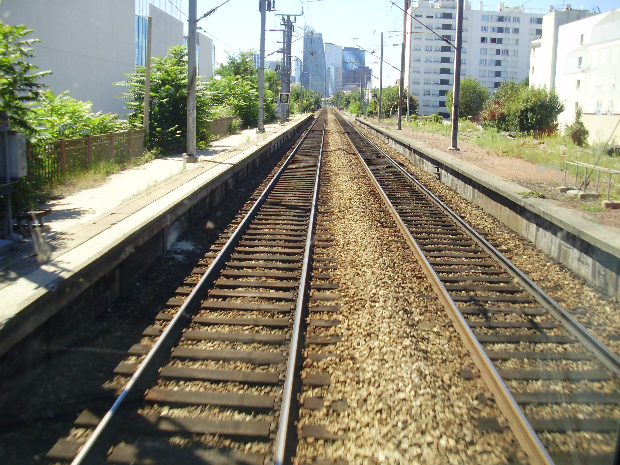 Old halt of Courbevoie Sport, in Courbevoie, Hauts-de-Seine, France (platforms formerly used, seen from the cab of a train towards Saint-Cloud.)